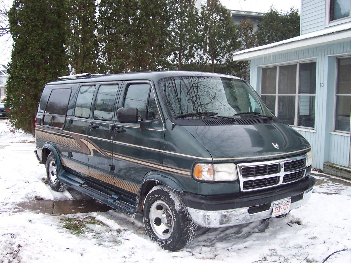 1996 Dodge Ram Van, Passenger conversion, 2500 series.